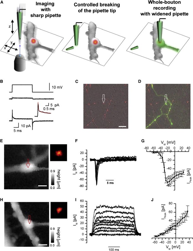 "Whole-bouton" patch clamps recodings with combined pacth-clamp and scanning ion conductance micrscopy.